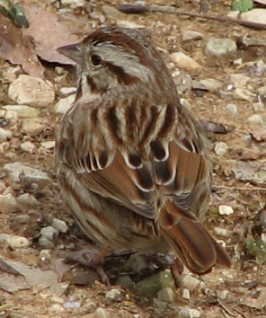 Song Sparrow